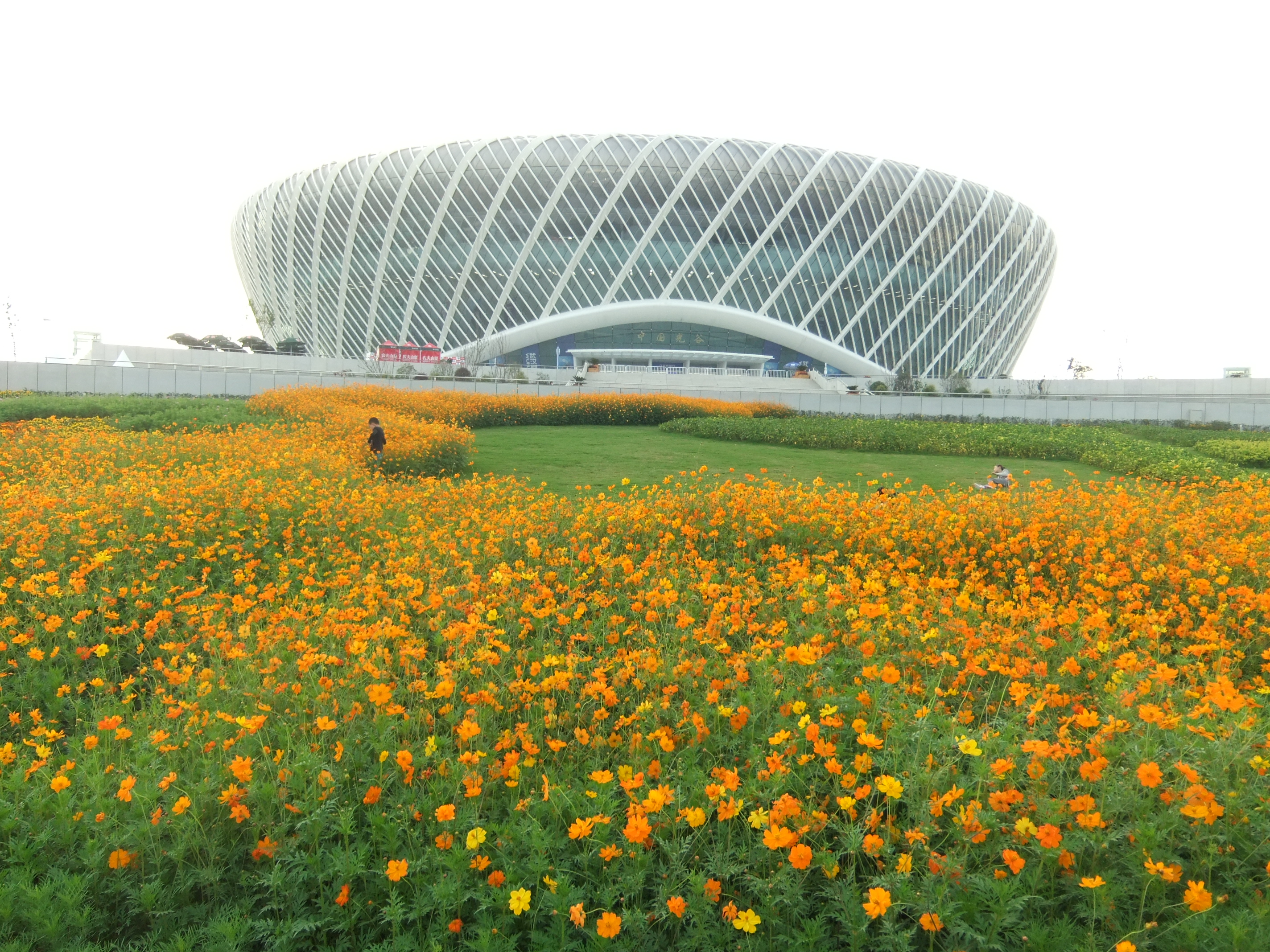 New development in the southeastern part of Wuhan